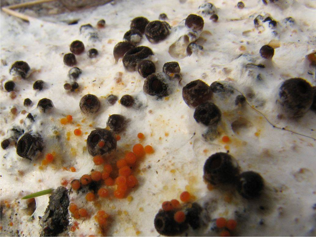 The ascomycete fungus Pseudombrophila aggregata. Photographed in Hörnefors, Västerbotten, Sweden.